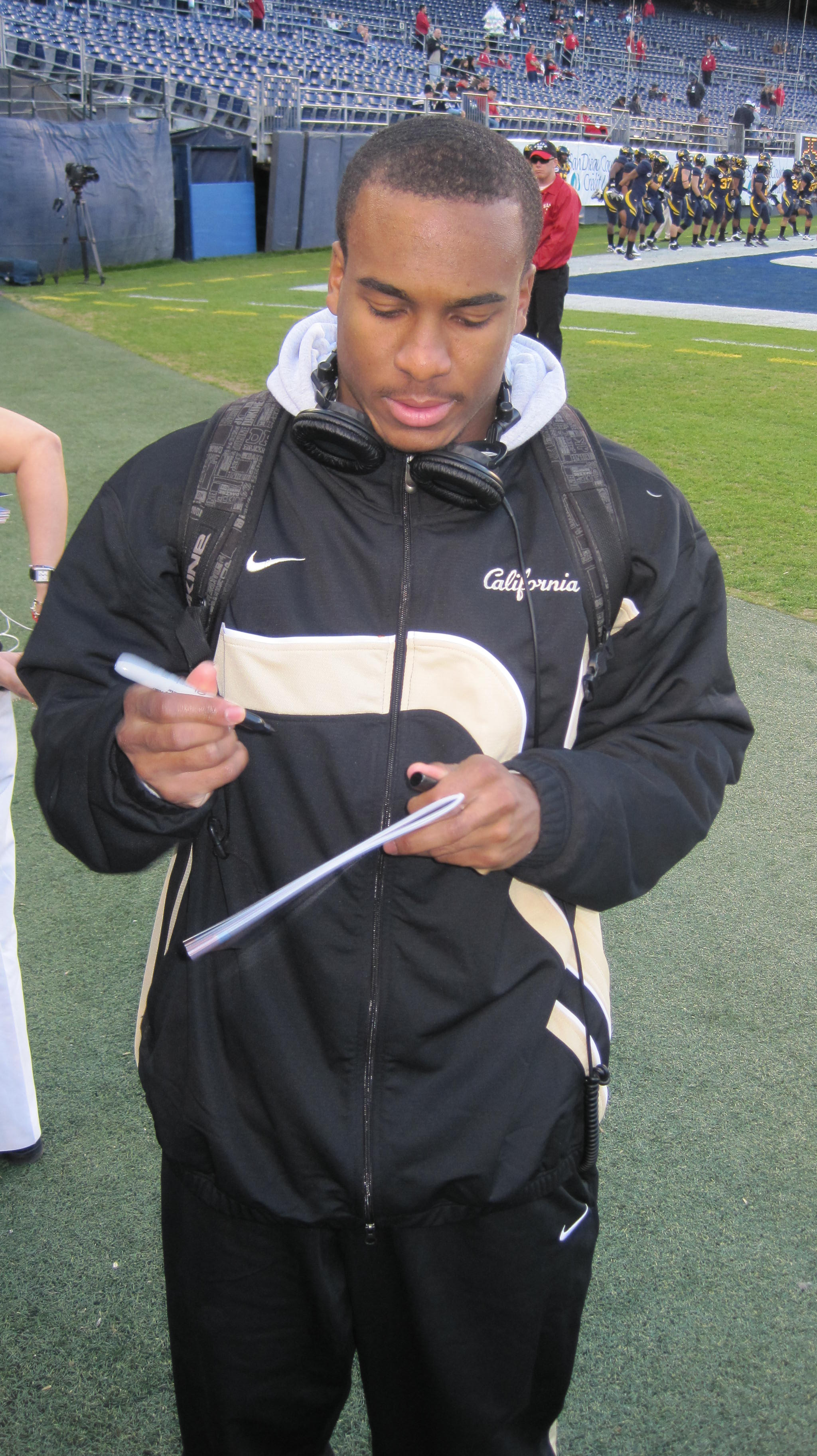 Cal running back Jahvid Best signs autographs for fans prior to the start of the 2009 Poinsettia Bowl between the California Golden Bears and the Utah Utes. Best did not play in the game. The Utes won 37-27.